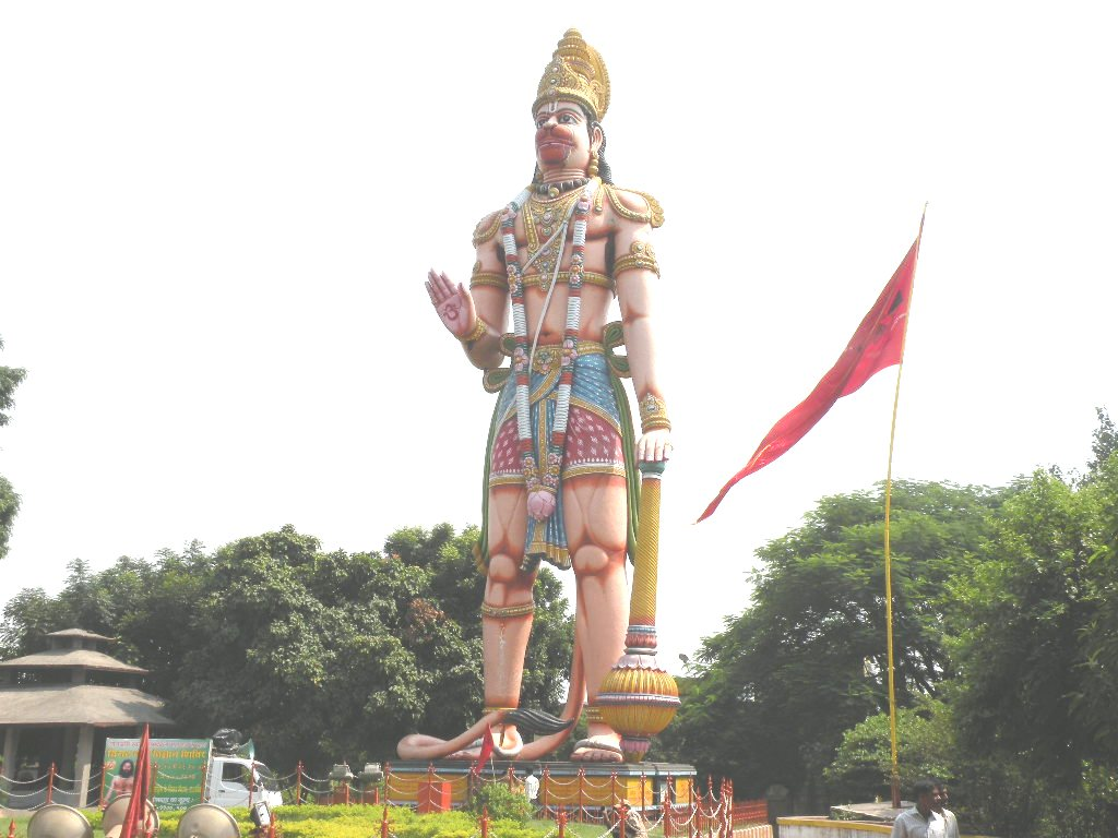 Hanuman Vatika a Hindu temple situated in the steel city of Rourkela.